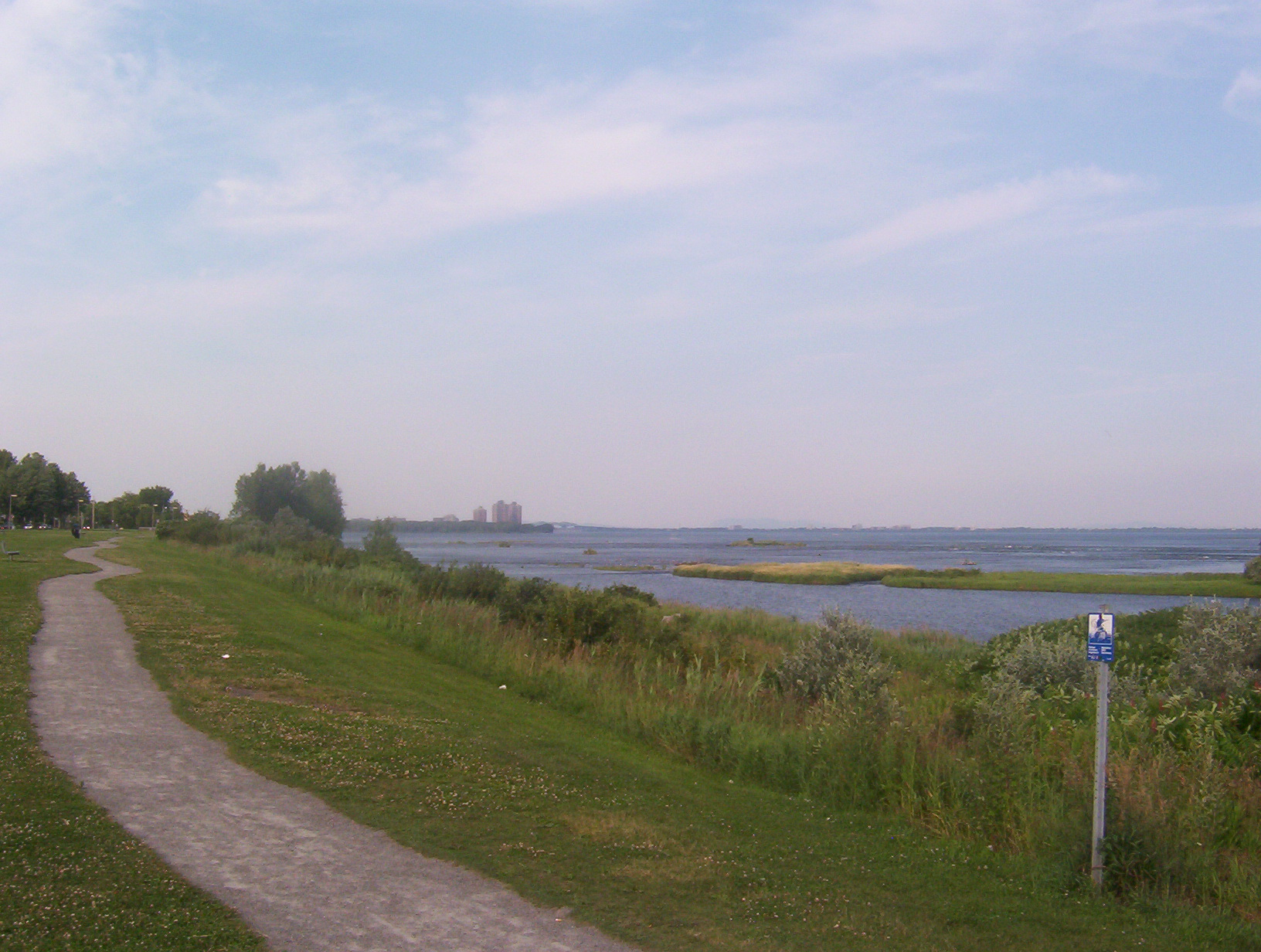 A picture of the St. Lawrence river from the riverbank in LaSalle, Quebec. Taken by me.